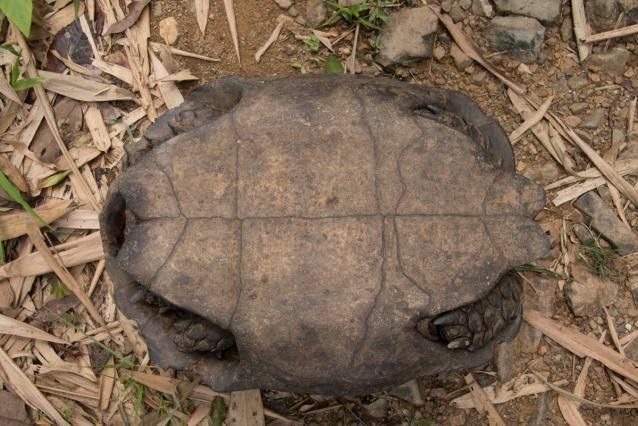 The plastron of an Asian forest tortoise (Manouria emys), taken in Kaeng Krachan National Park in Thailand.